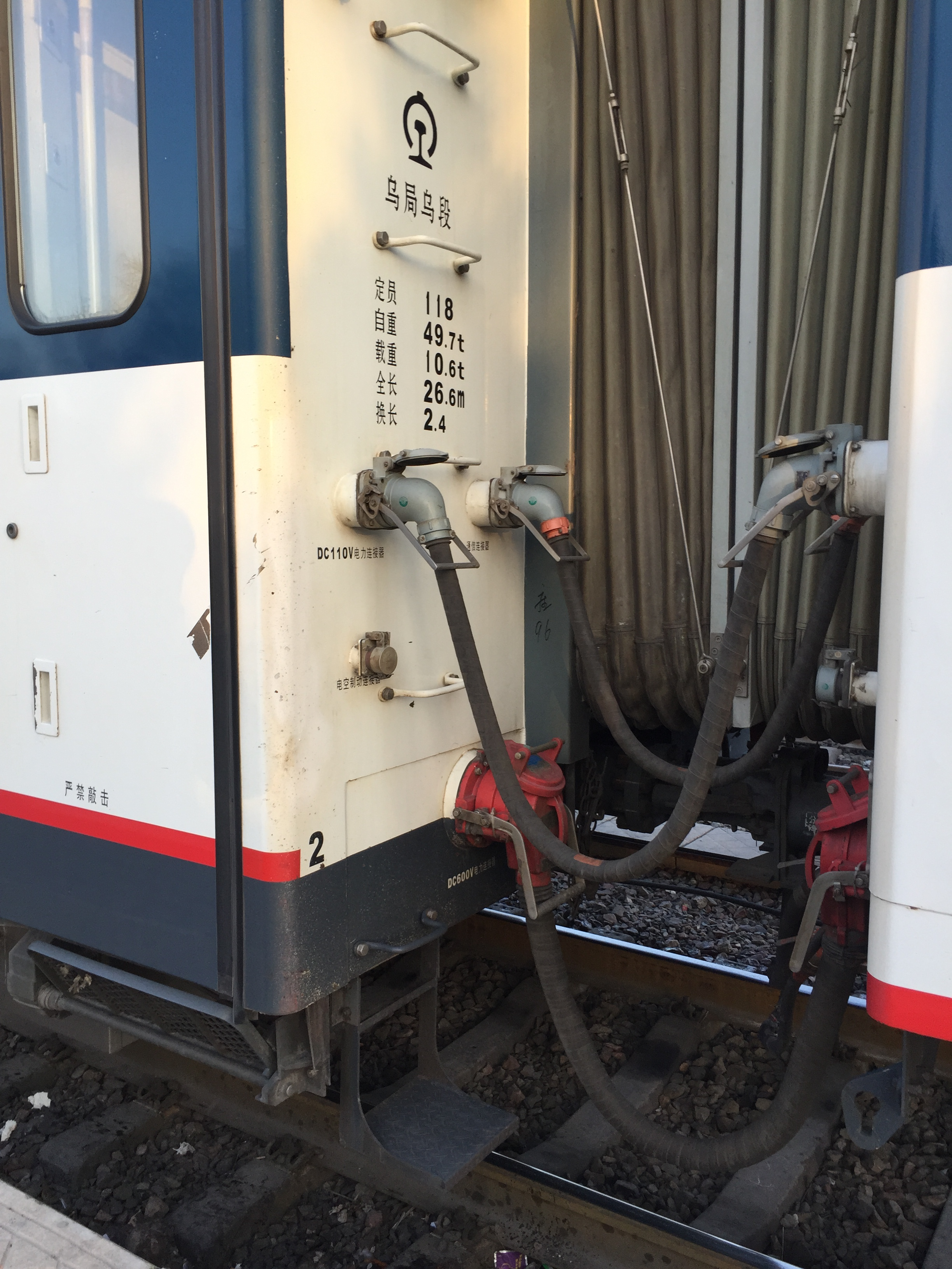 Z70 to Beijing West.